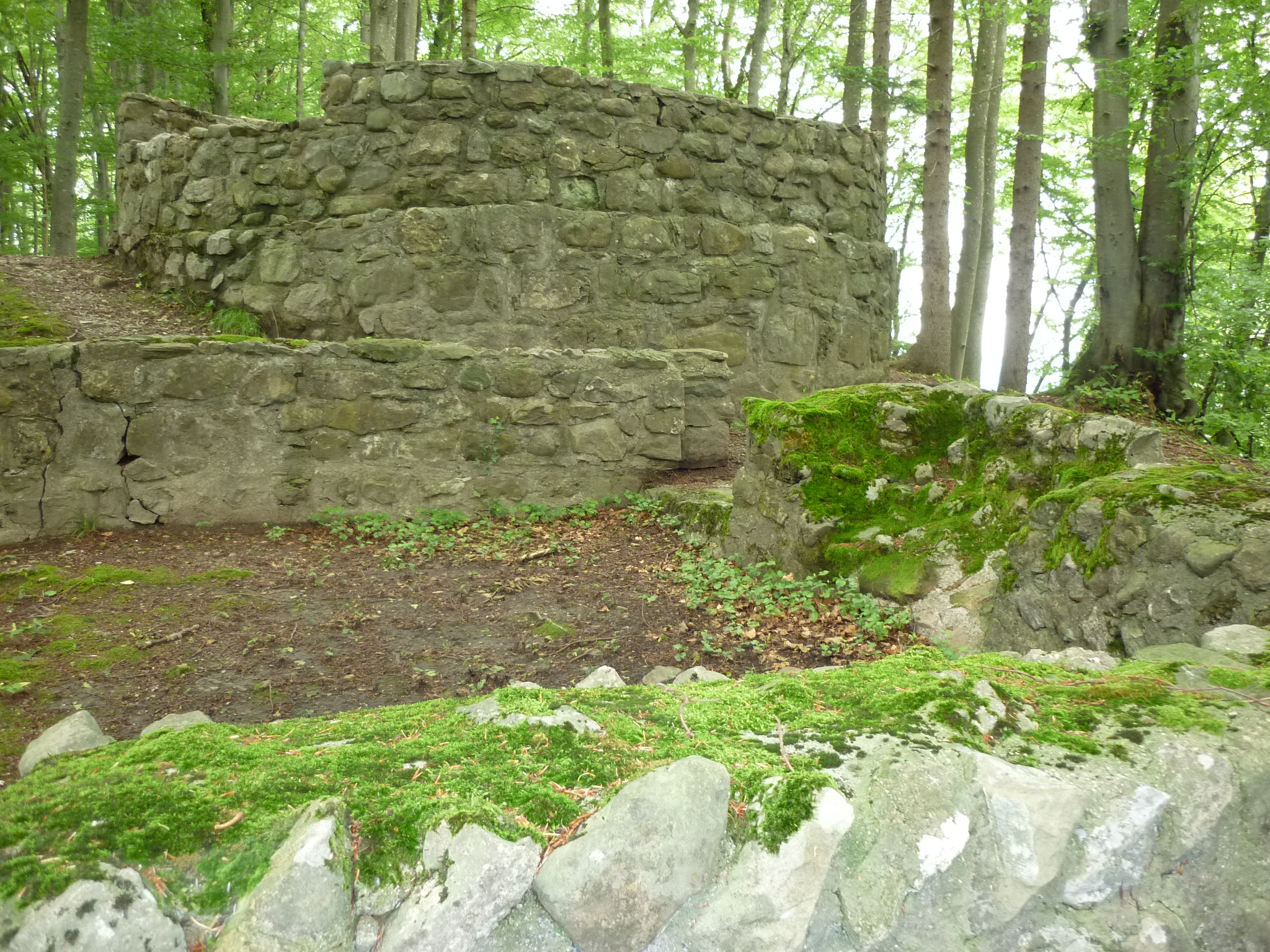 Castle ruin, Kindhausen Bergdietikon AG, Switzerland